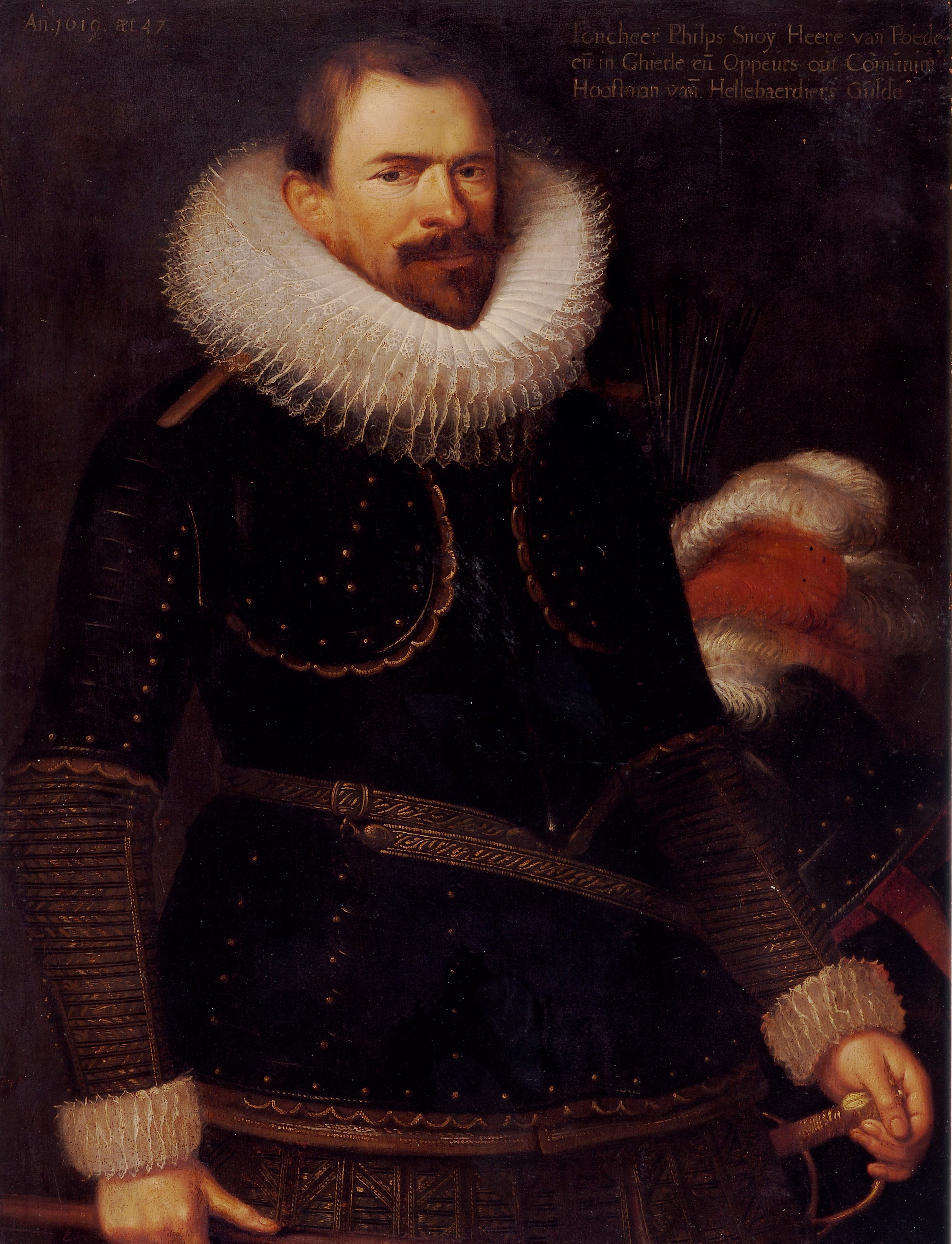 Philip Snoy (ca. 1570-1637), Mayor of Mechelen